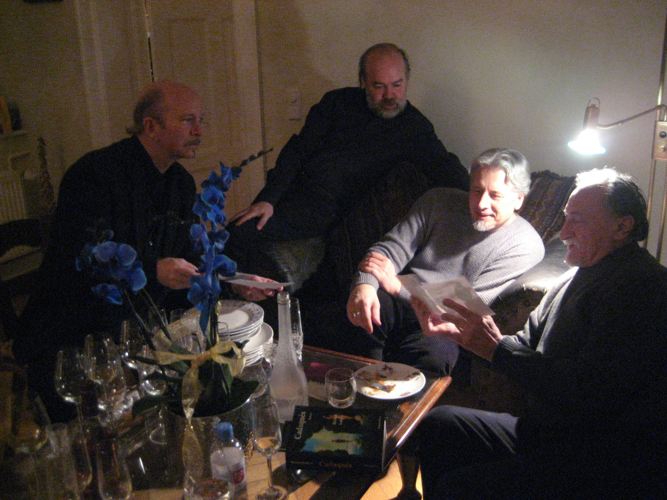 Michael Lederer in Berlin 2014 with Genia_Chef, Vladimir_Sorokin, Boris_Mikhailov_(photographer).